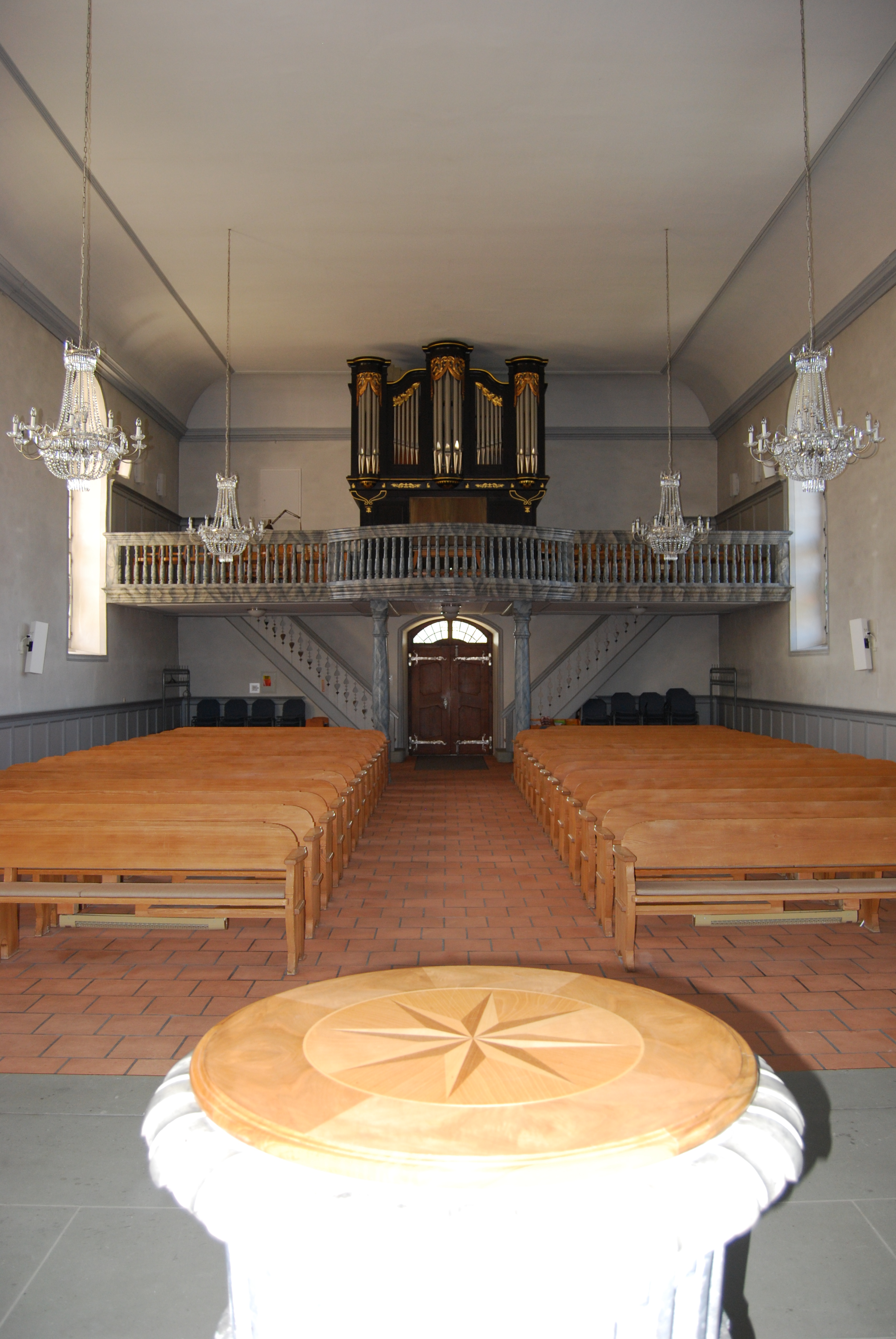 Protestant Church of Madiswil, canton of Bern, Switzerland